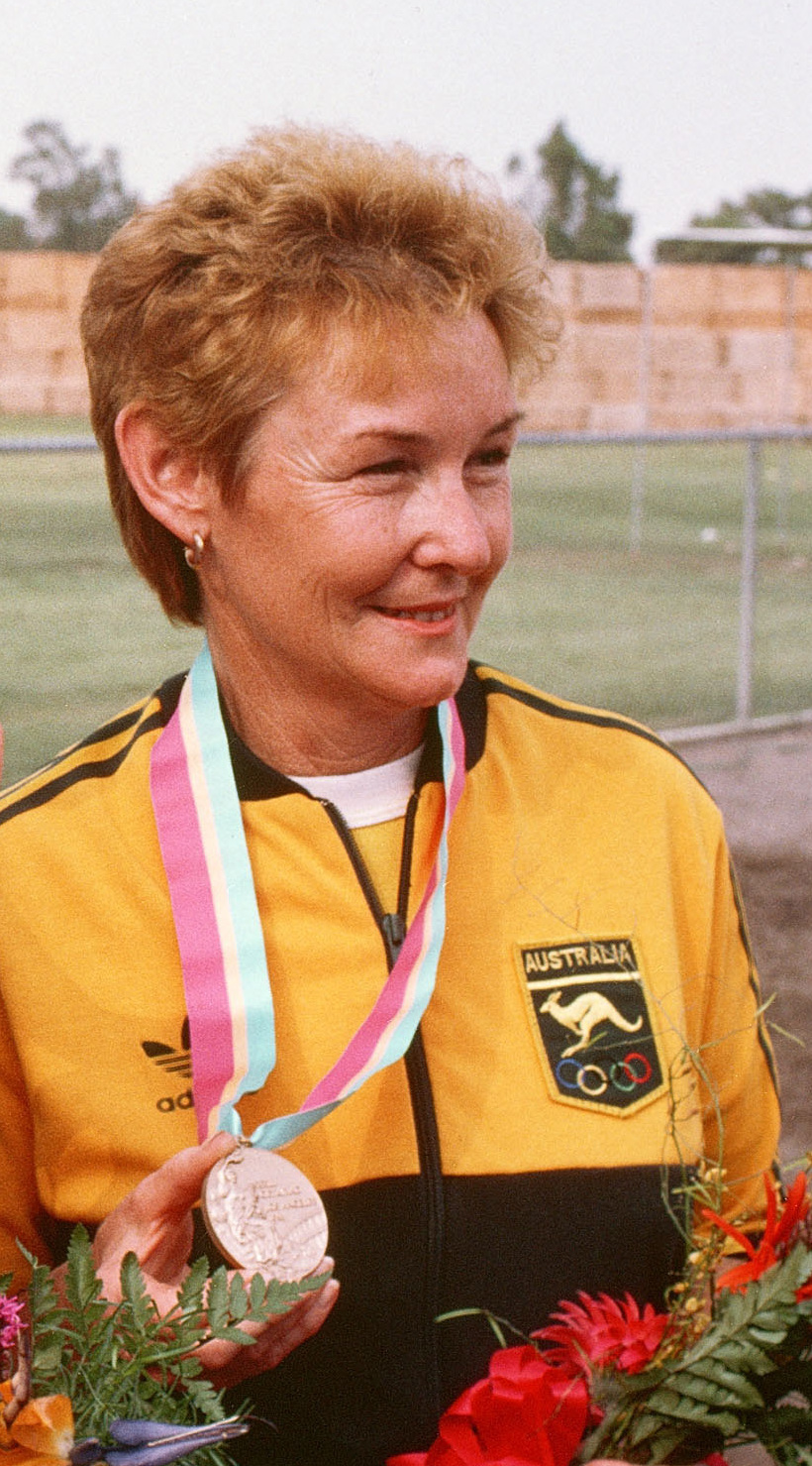 Patricia Dench, bronze medalist for sport pistol at the 1984 Summer Olympics.